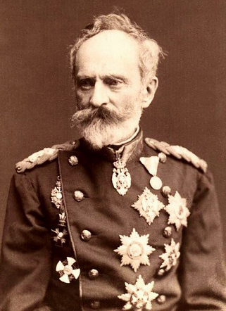 General František Aleksandr Zach, first Chief of the General Staff of Serbia